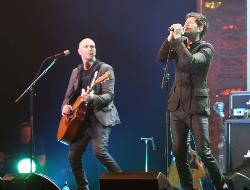 Nobel Peace Prize Concert 2008, The Script